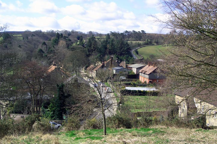 View across Lealholm, North Yorkshire towards Crunkly Ghyll